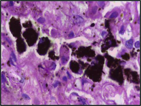 Lung tissue showing collections of alveolar macrophages with phagocytosed blackish pigment, carbon, without evoking an inflammatory response in the surrounding tissue. H&E stain 100X.